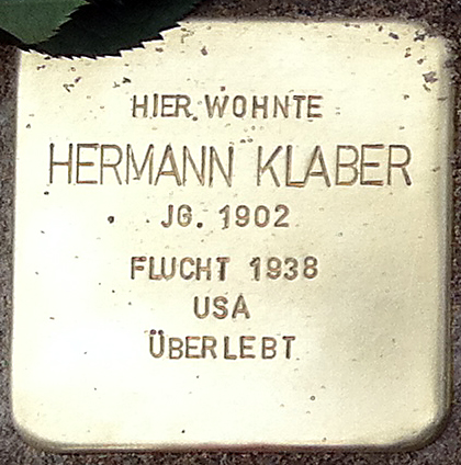 Stolperstein - Stumbling Stone in Nettetal, NRW, Germany Hermann Klaber